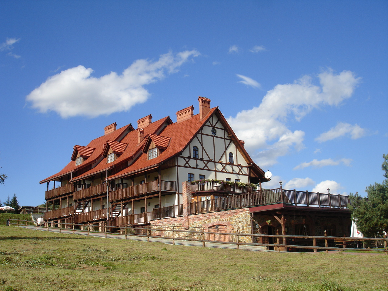 Polańczyk, new hotel